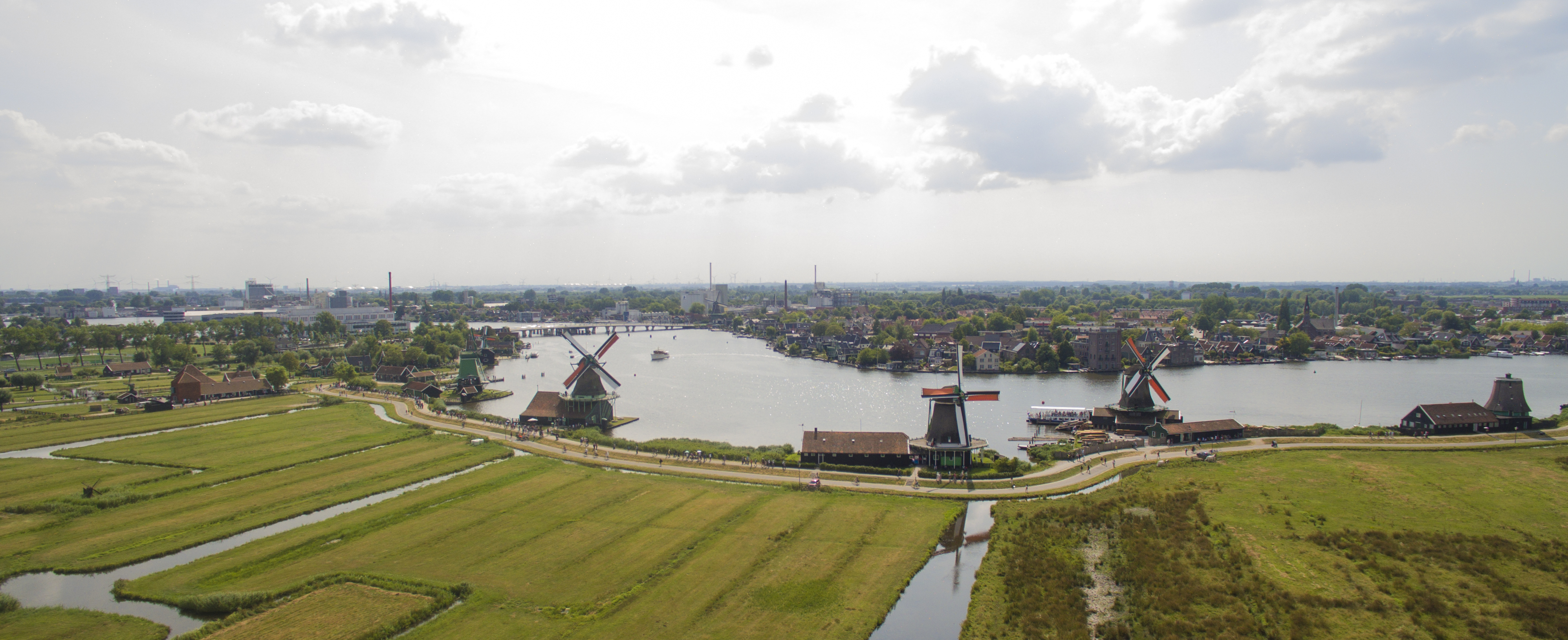 Zaanse Schans Drone 2018